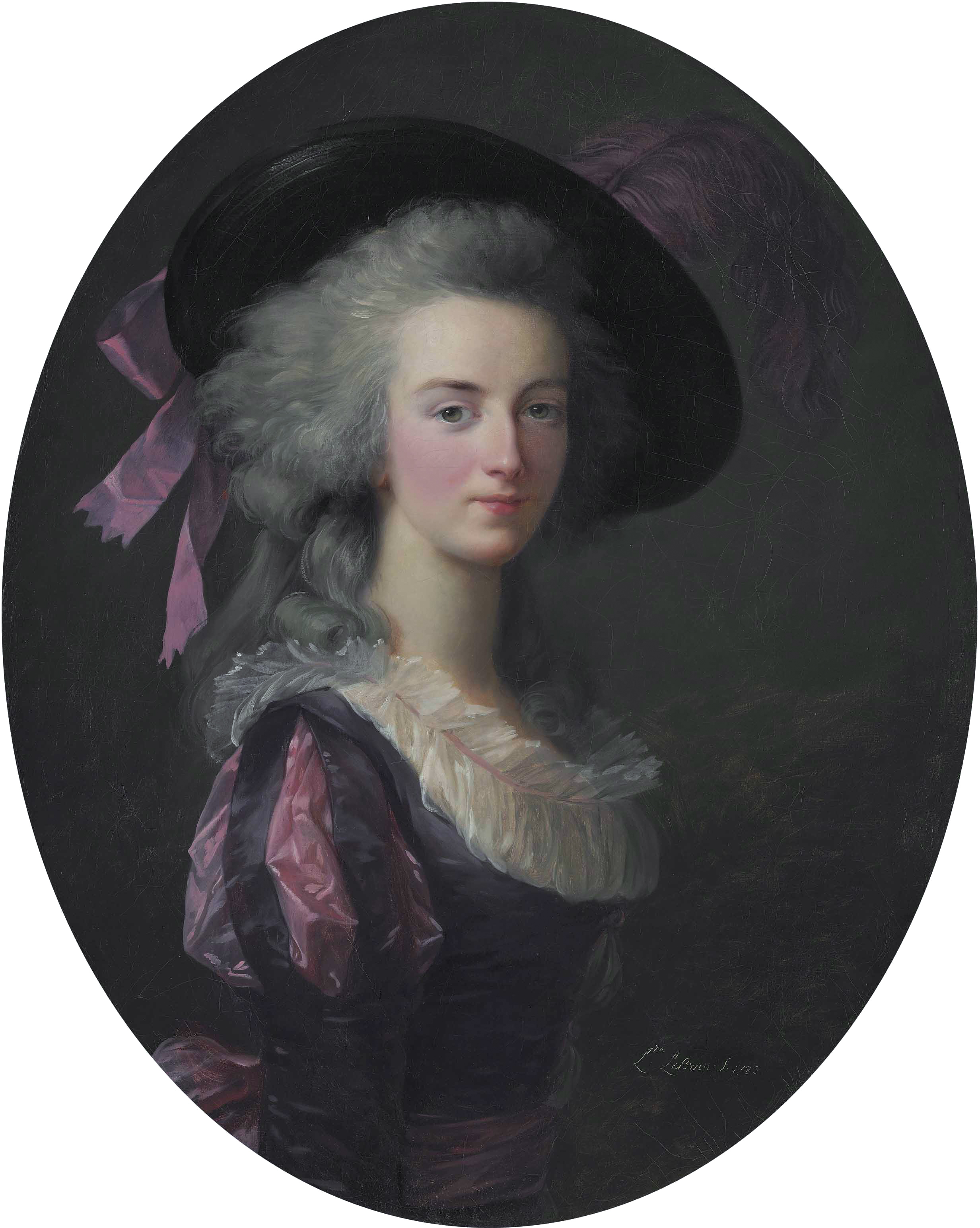 La maréchale-comtesse de Mailly, née Blanche Charlotte Marie Félicité de Narbonne Pelet (1761-1840) oil on canvas 73.4 x 58.7 cm signed b.r.: Lse LeBrun.f.1783